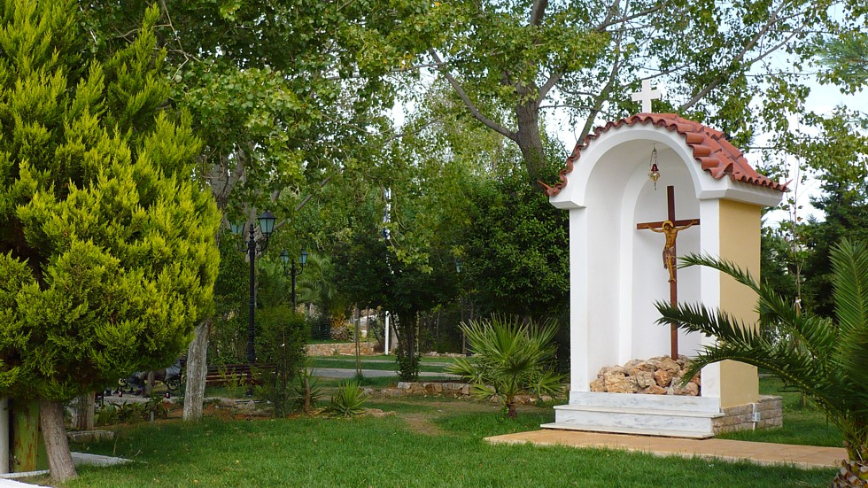 Anthoussa